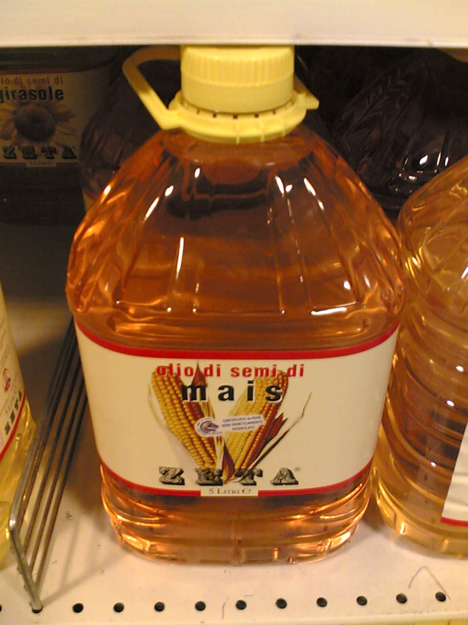 Corn oil